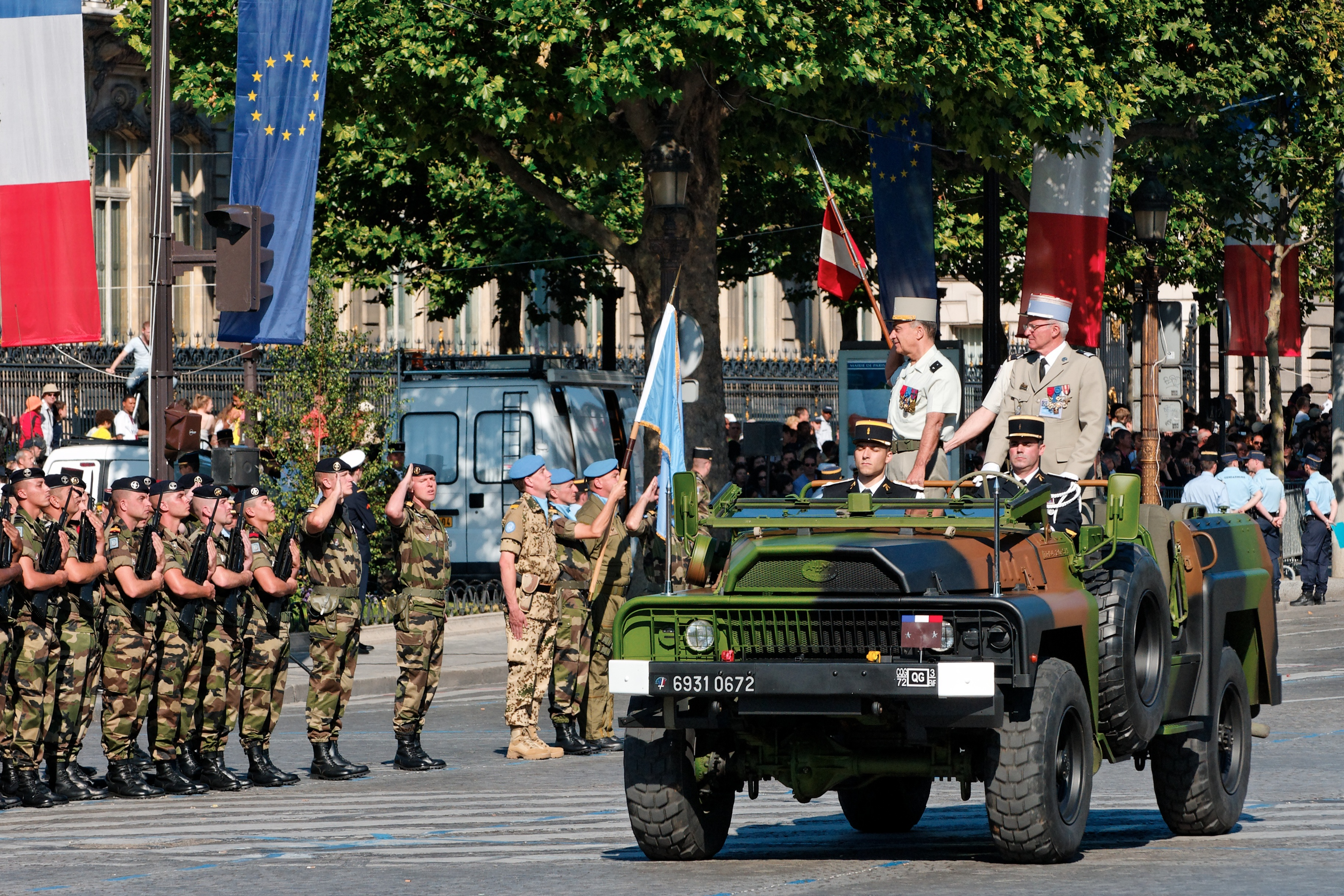 Brigade General Jean-Gilles Sintes, territorial deputy of the military governor of Paris, reviewing the UN battalion during the Bastille Day 2008 military parade on the Champs-Élysées, Paris.